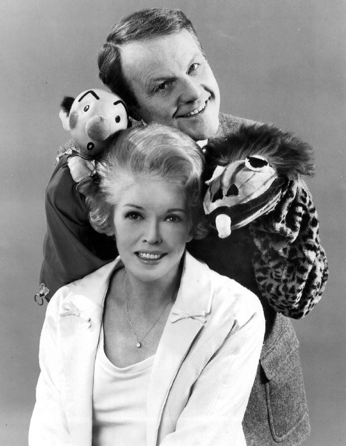 Photo of Fran Allison and Burr Tillstrom with Kukla and Ollie as they hosted the 1968 Thanksgiving parade for CBS-TV.